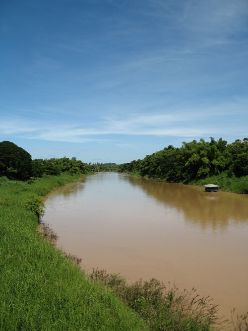 Yom River in Amphoe Si Satchanalai, Sukhothai Province.